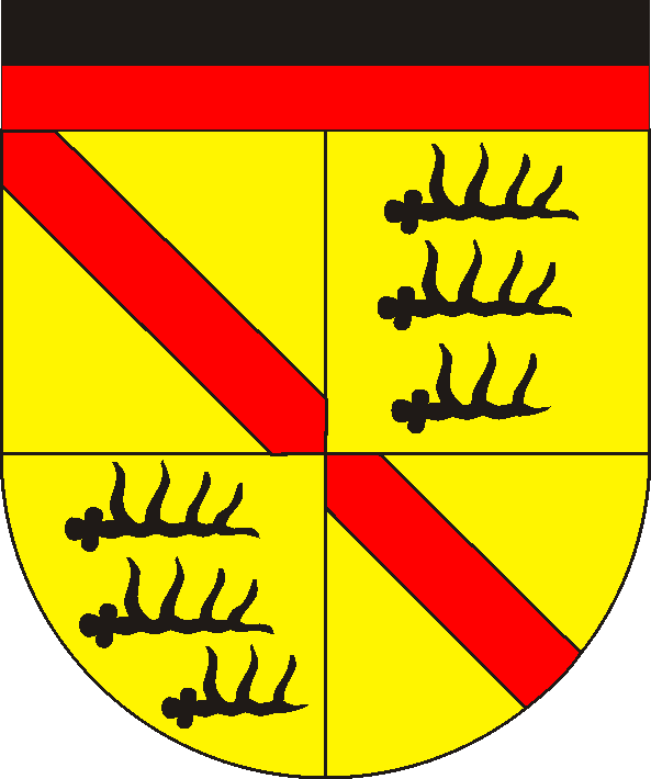 Coats of arms of the state of Württemberg-Baden (1945-1952); 1,4: Baden; 2,3: Württemberg; upper-border: colours of Württemberg